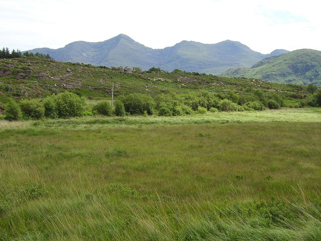 Gleann Chárthaigh A Glencar bog backed by Mullaghanattin /Mullach an Aitin, a rather spectacular peak which is high on my "to do" list.